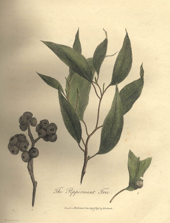 This is Plate 23 from John White's Journal of a Voyage to New South Wales. The plant is nominally Eucalyptus piperita, then given the common name "Peppermint Tree", now commonly known as "Sydney Peppermint" or "Urn-fruited Peppermint", and the plate accompanies the formal publication of the species by James Edward Smith. However, it was later found that only the centre and right images are this species; the left image in fact shows fruit of Eucalyptus capitellata.